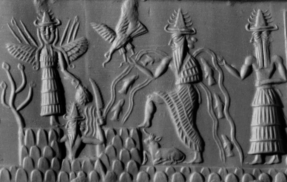 Detail of The Adda Seal. The figures can be identified as gods by their pointed hats with multiple horns. The figure with streams of water and fish flowing from his shoulders is Ea (Sumerian Enki), god of subterranean waters and of wisdom. Behind him stands Usimu, his two-faced vizier (chief minister). At the centre of the scene is the sun-god, Shamash (Sumerian Utu), with rays rising from his shoulders. He is cutting his way through the mountains in order to rise at dawn. To his left is a winged goddess, Ishtar (Sumerian Inanna). The weapons rising from her shoulders symbolise her warlike characteristics.